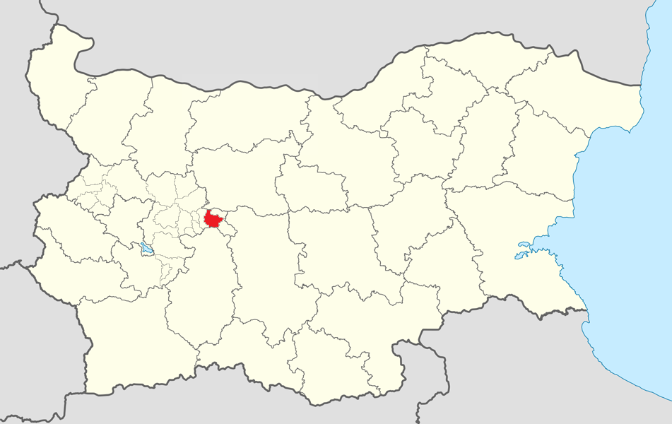 Location map of Pirdop Municipality within Bulgaria and Sofia province